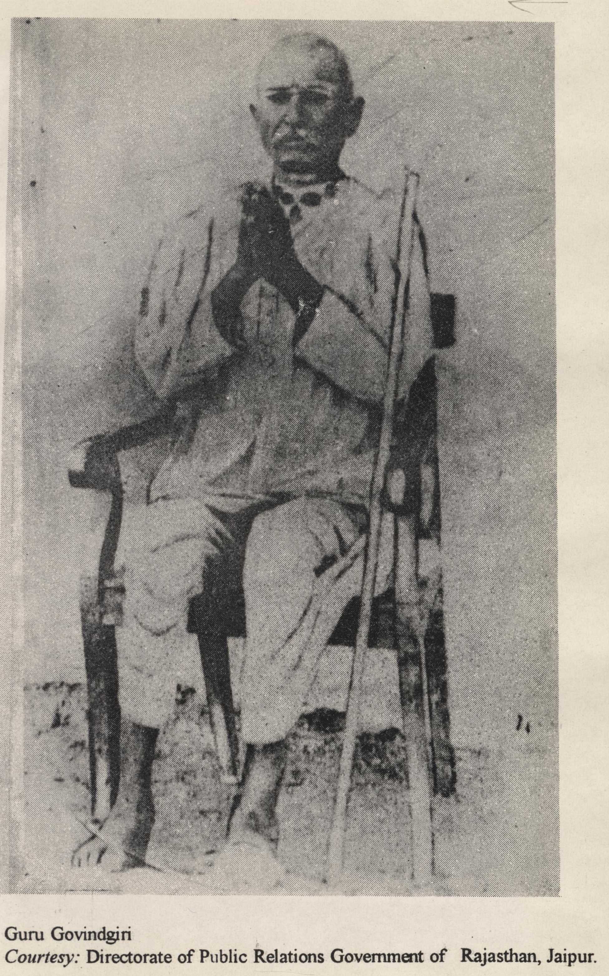 Govindgiri, social reformer in southern Rajasthan in early 1900s.